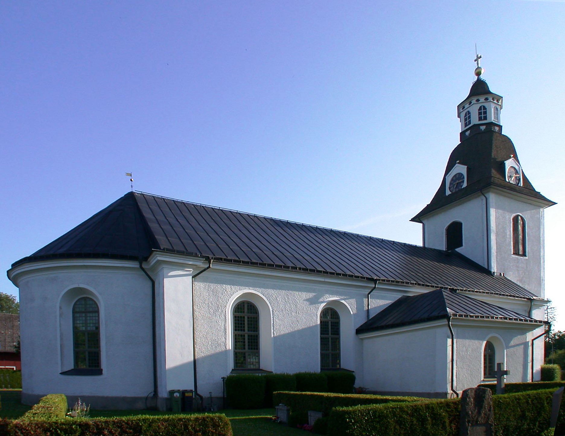 Västerlösa church, Linköping, Sweden.